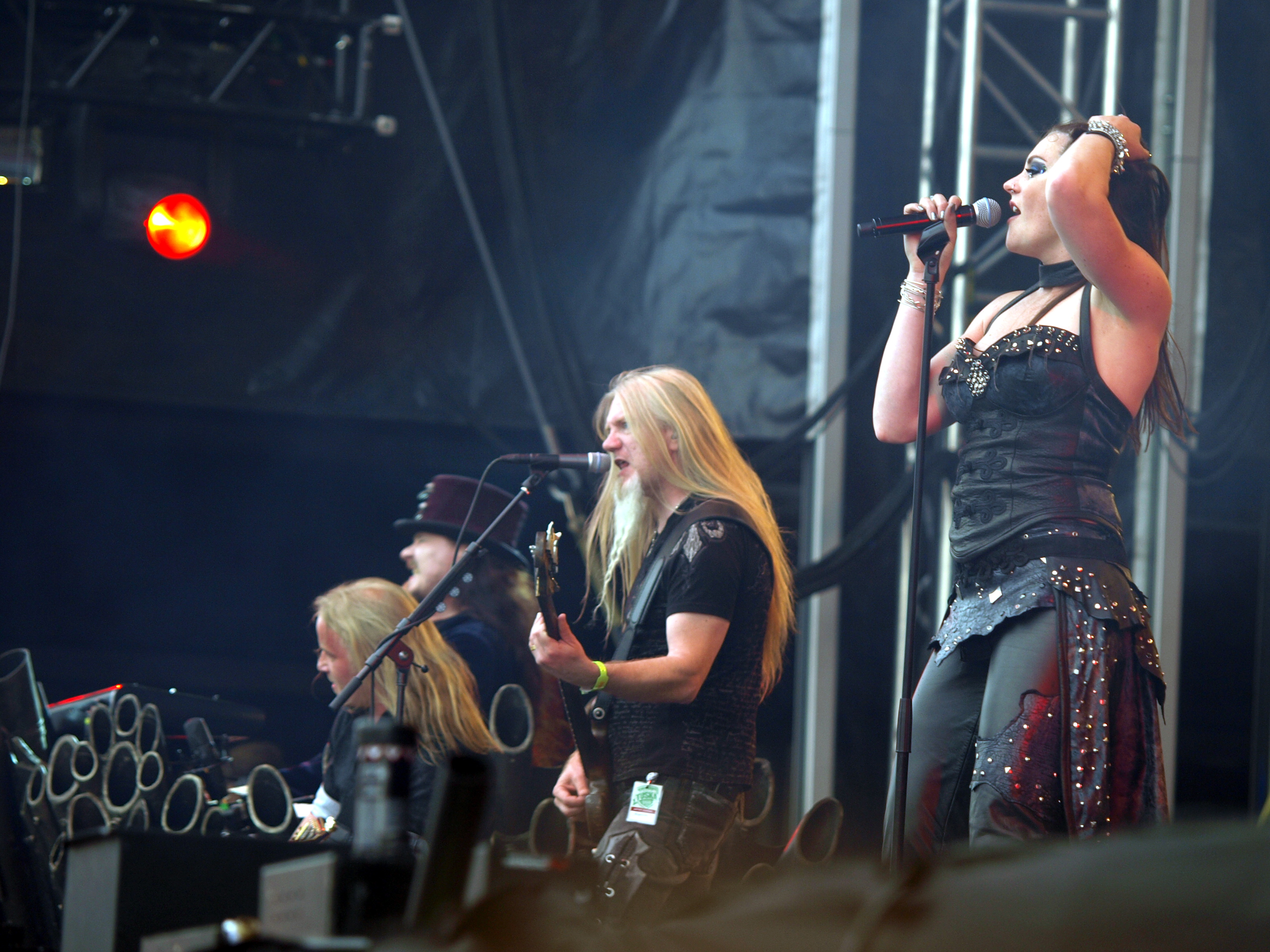 Finnish band Nightwish at Tuska Open Air 2013